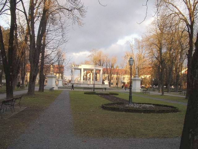 Bjelovar - Park in the center